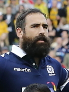 2017.06.17.15.04.43-AUSvSCO anthems-0001 The 2017 mid-year rugby union international, 17 June 2017, Australia vs Scotland at Allianz Stadium, Sydney